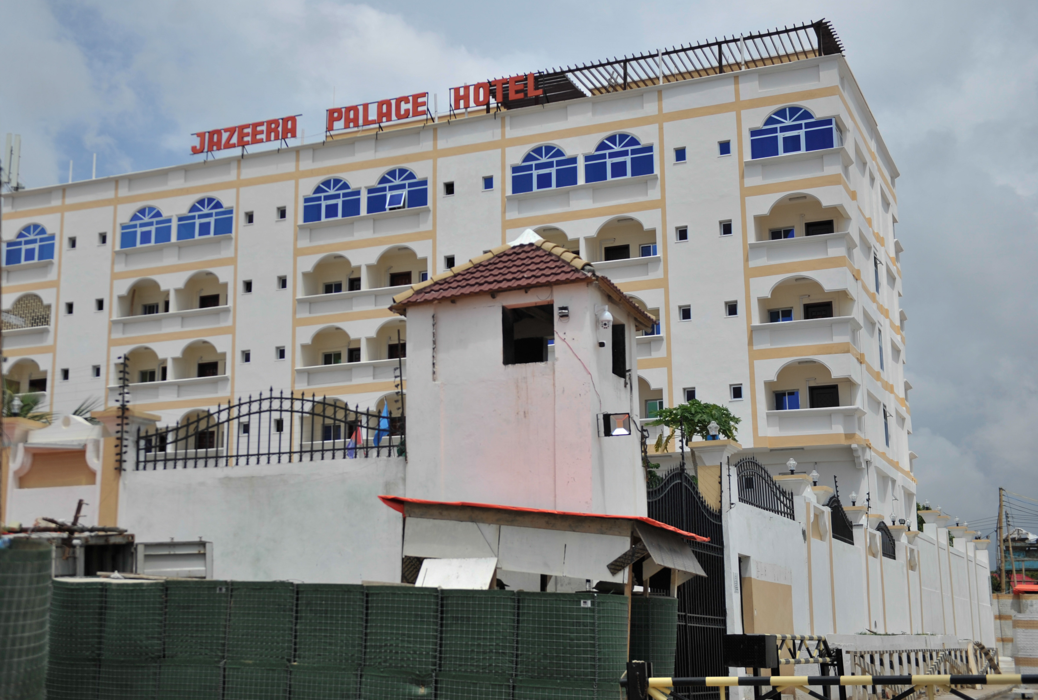 The renovated Jazeera Hotel dominates the skyline of Mogadishu city, Somalia in a photo taken on 29 November 2015.